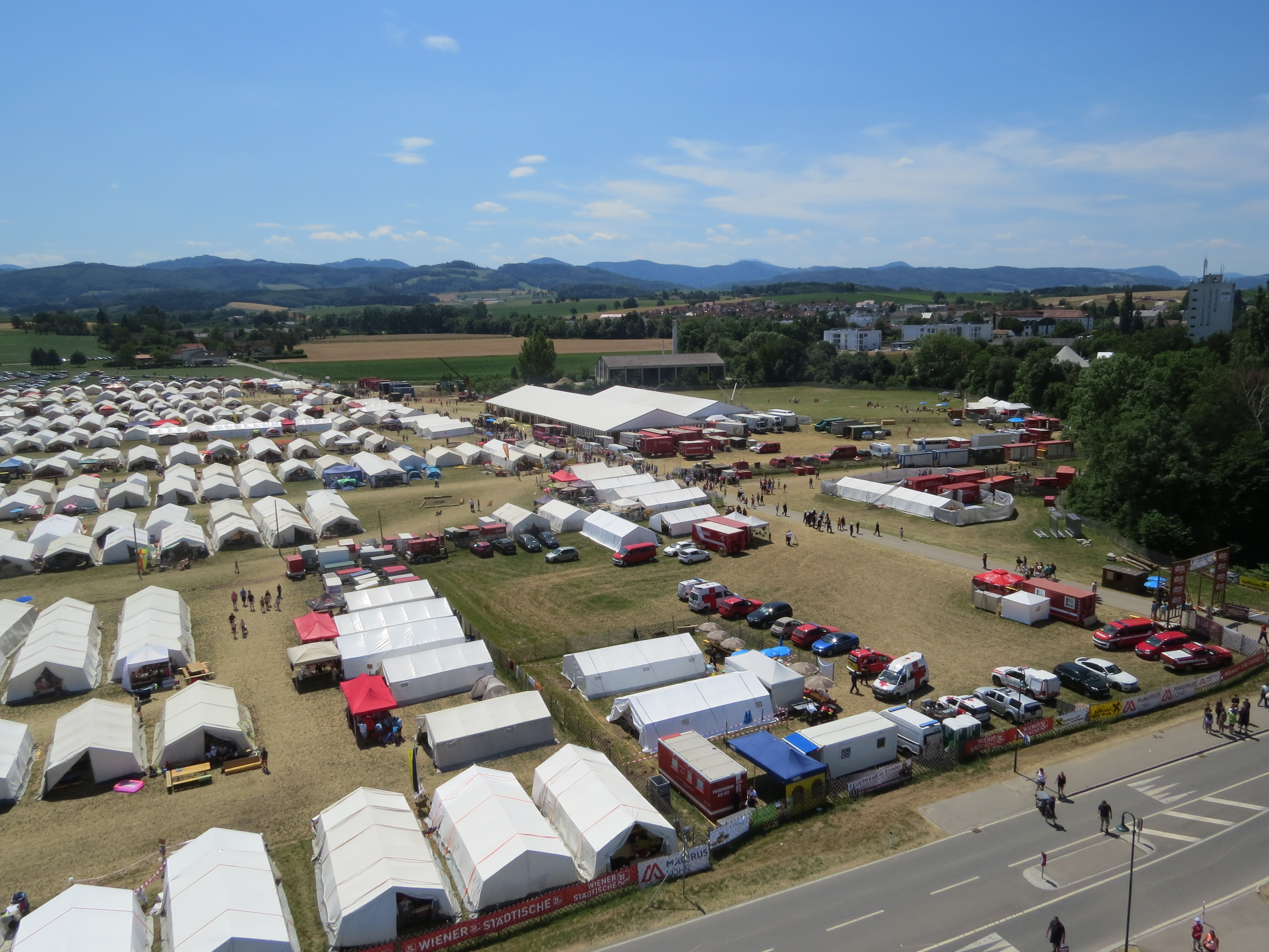 47. Meeting of the Lower Austrian Fire Brigade Youth 2019 in Mank, Austria